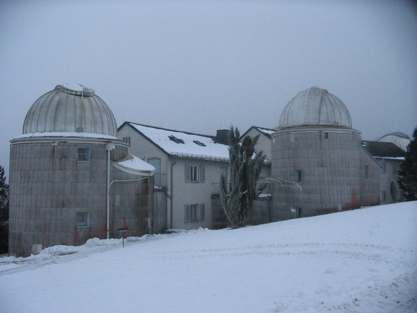 Hoher List Observatory in Germany